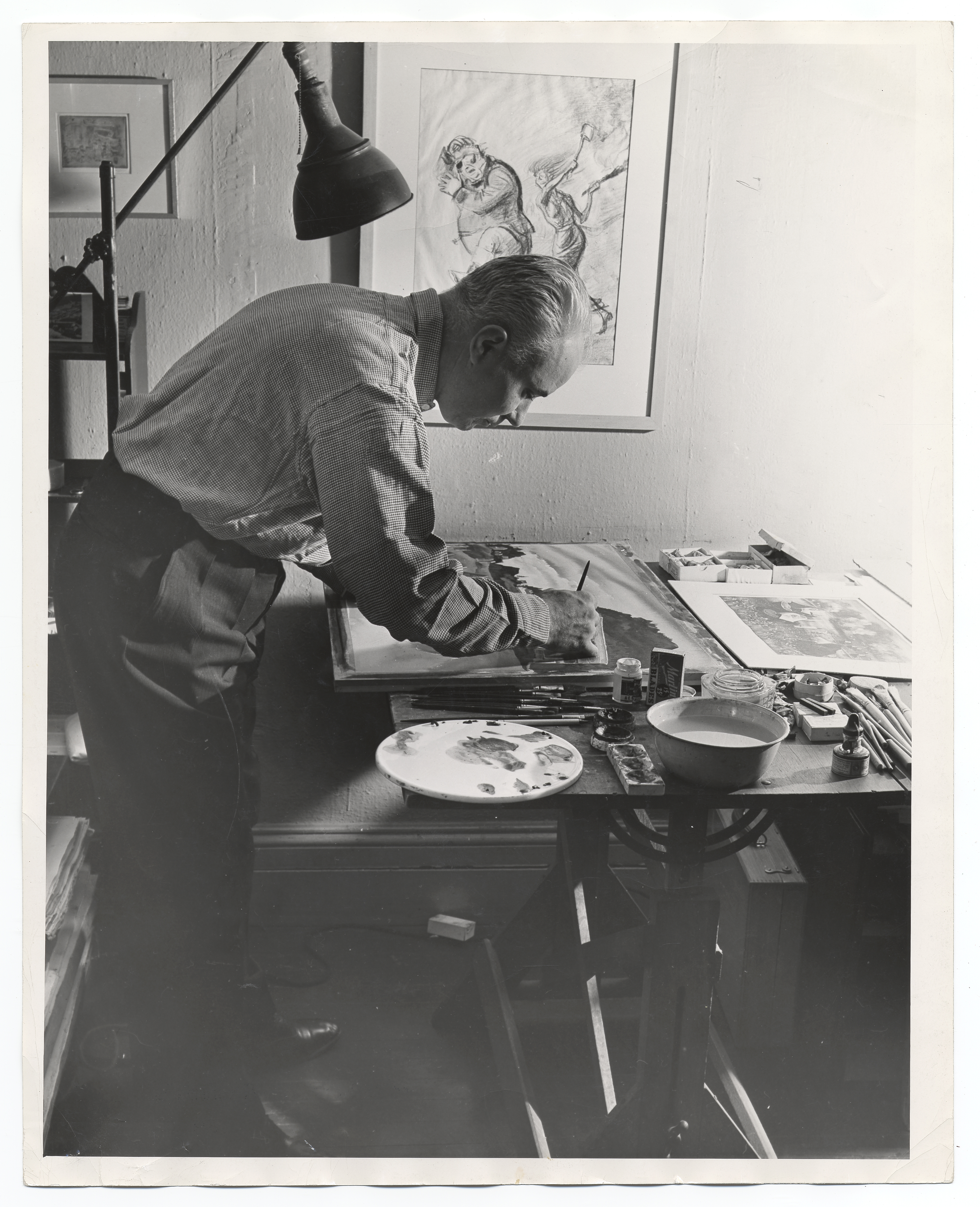 Dehn working on a painting for submission to Art Week. Identification on verso (handwritten and stamped): New York City W.P.A. Art Project; Photography Division; 110 King Street Negative No: 5353-7; Date: 10/29/40; Title: Pub. Shots for Art Week; Location: 230 E. 158 St., Man.; Photographer: Yavno; Artist: Dehn, Adolph; .: 1; O.P. No.: 65-1-97-2063; Identification on verso (typewritten): Adolph Dehn (1895- ). In a long active career, Dehn has been a painter in oil and water color, but is known primarily as a lithographer. His subjects cover a wide range, New Orleans negroes, life and landscapes in the West and Northwest, city life and movement. His style too has ranged widely, from a Chinese quality to social satire.